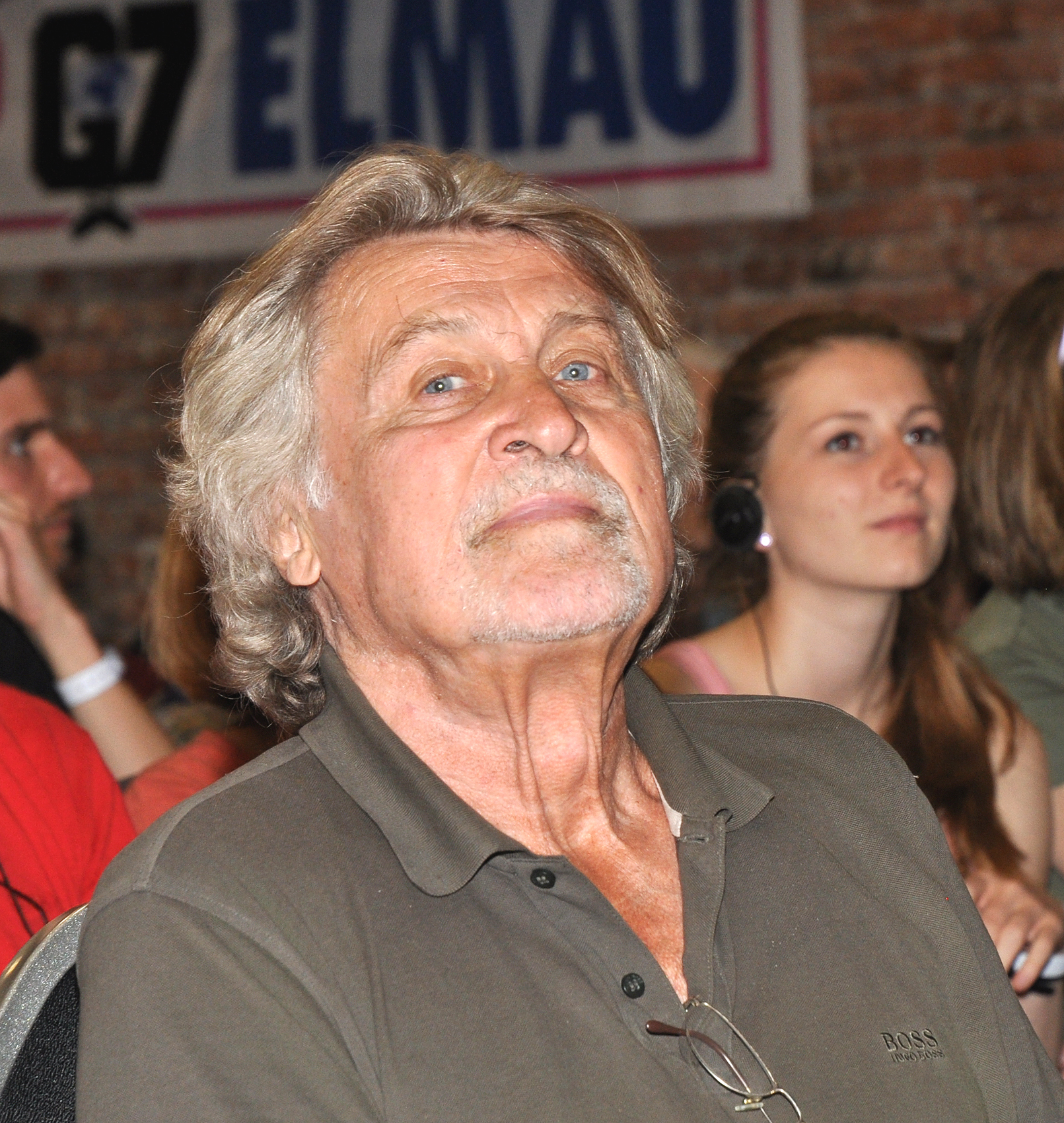 Conrad Schuhler at "Gipfel der Alternativen" 2015, Munich